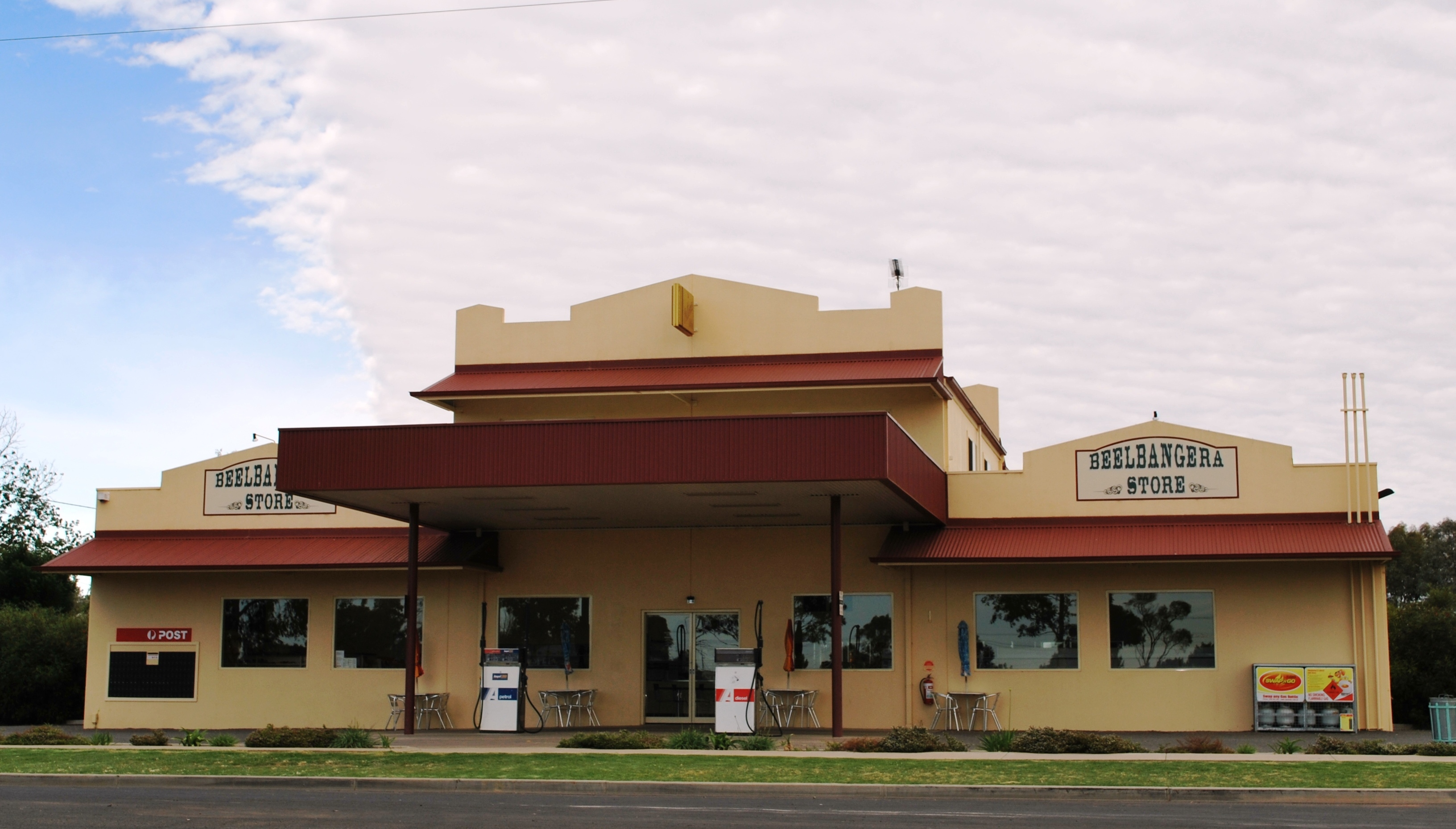 General store at Beelbangera, New South Wales